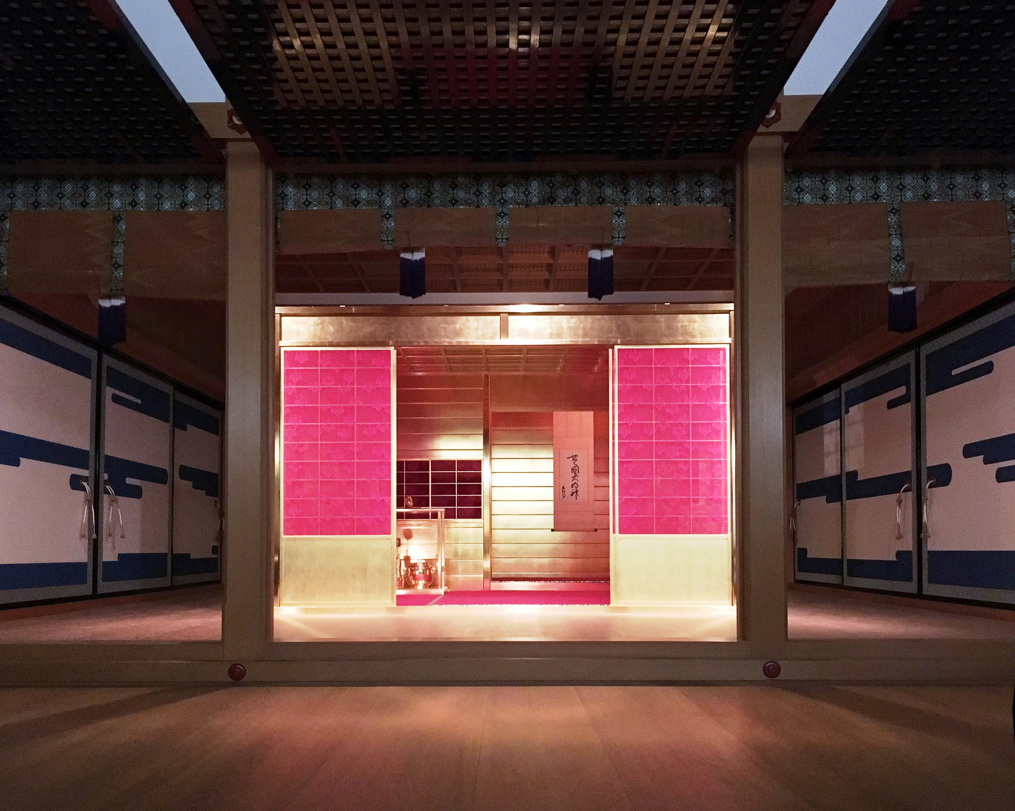 The Golden Tea room in the MOA Museum, Atami, Shizuoka Prefecture, central Japan.